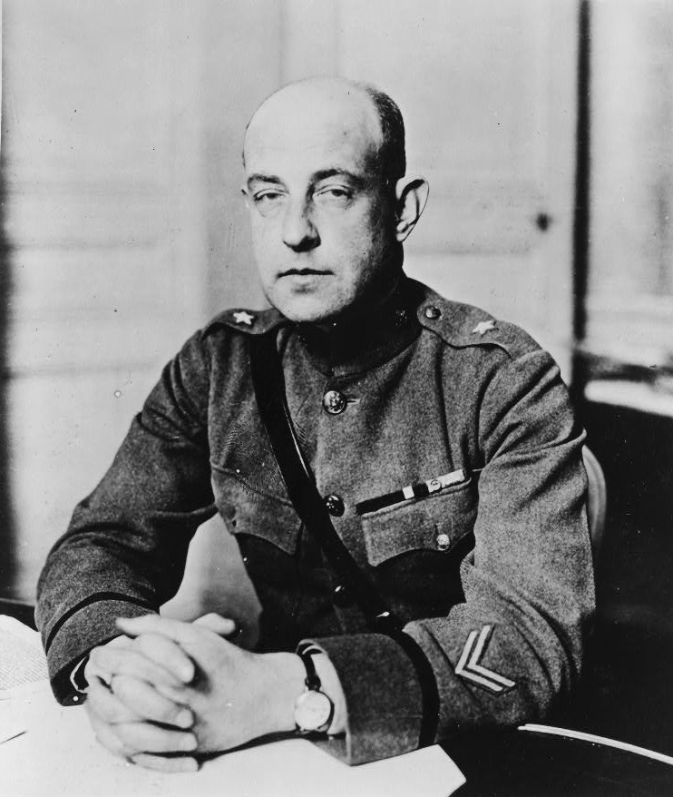 General Marlborough Churchill, half-length portrait, seated at desk, facing slightly left] / photo. by Bain News Service, New York City.